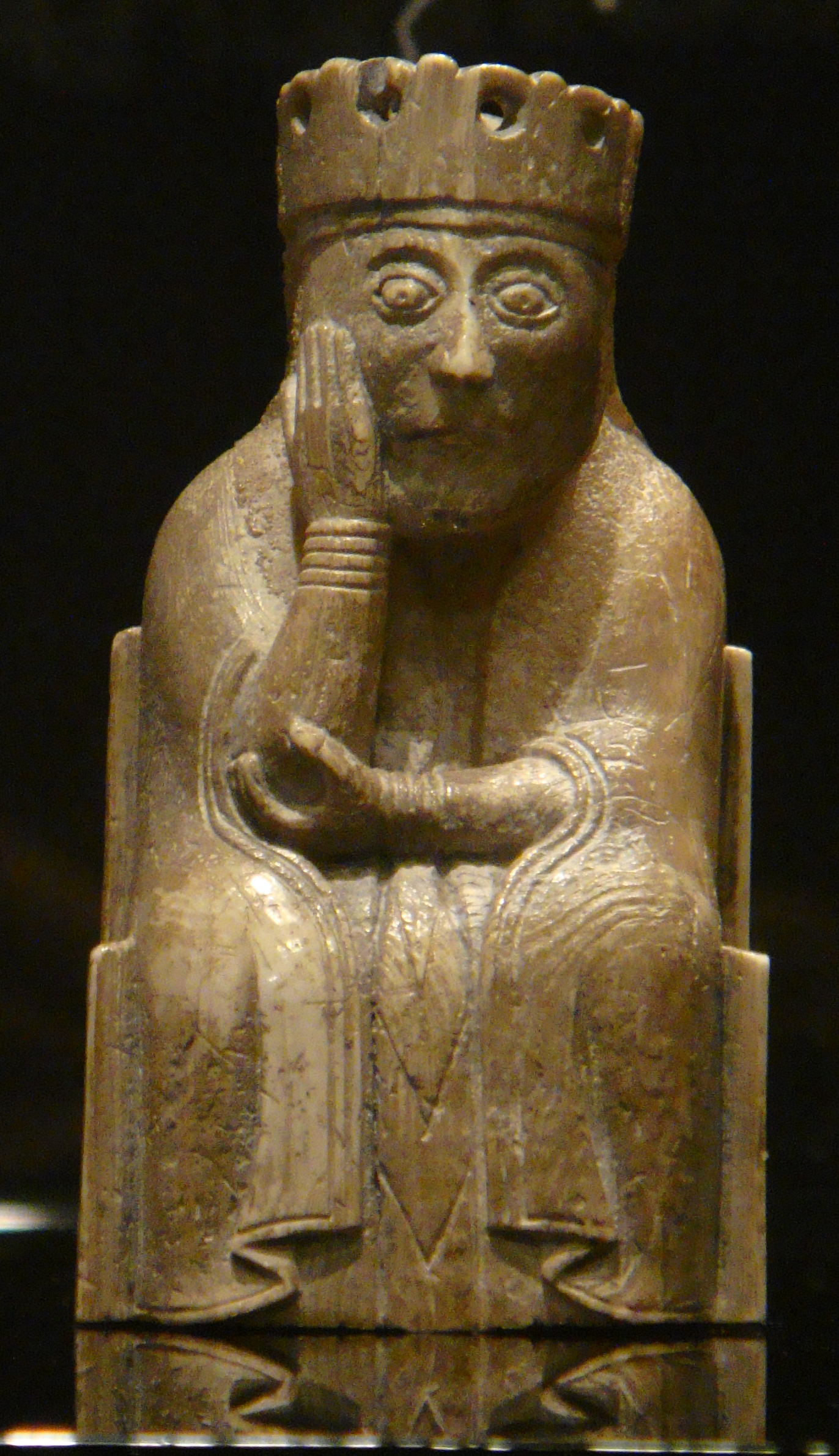 Exhibition in the National Museum of Scotland. Pieces from the British Museum, National Museum of Scotland and other collections. A queen with number of permanent collection NMS 21